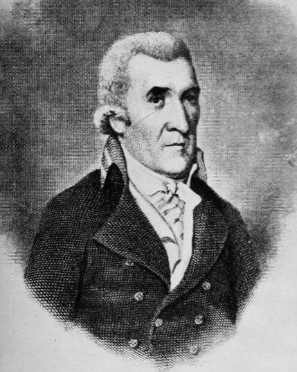 William Wright FRS FRSE FRCPE FLS FSA Scot MWS (1735–1819)